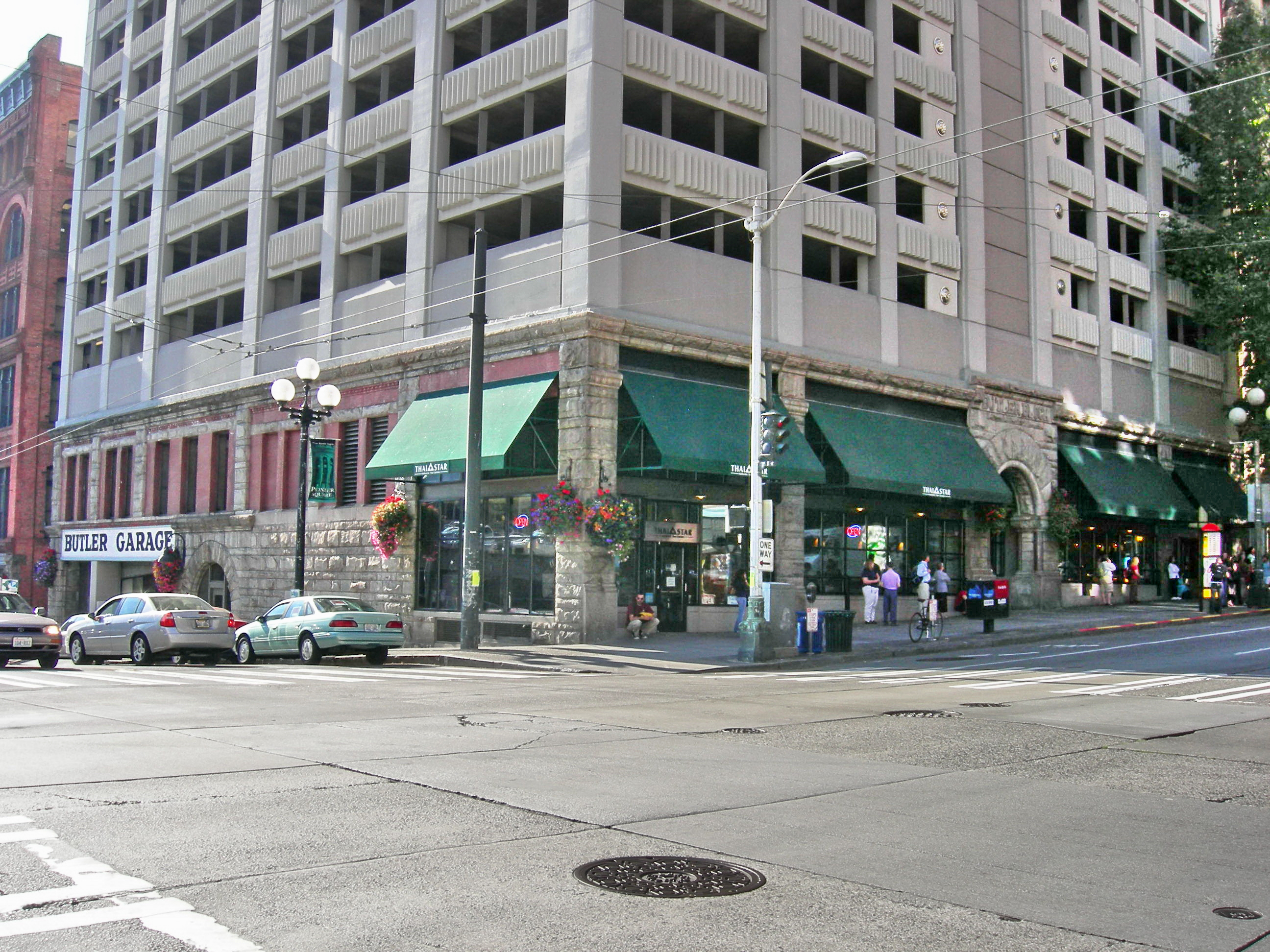 The remnant of the Butler Block, Seattle, Washington, USA. The upper stories of the building are gone, replaced by a multi-story car park. See [1] for a good discussion of the building.